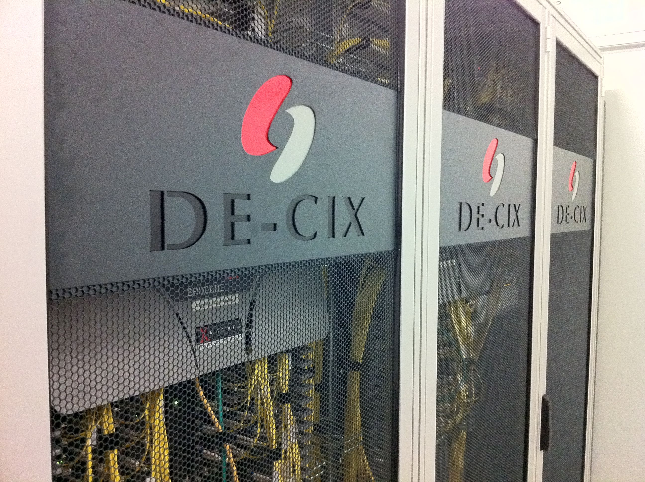 one picture, each day, for one year October, 6th 2011 We can haz internet!